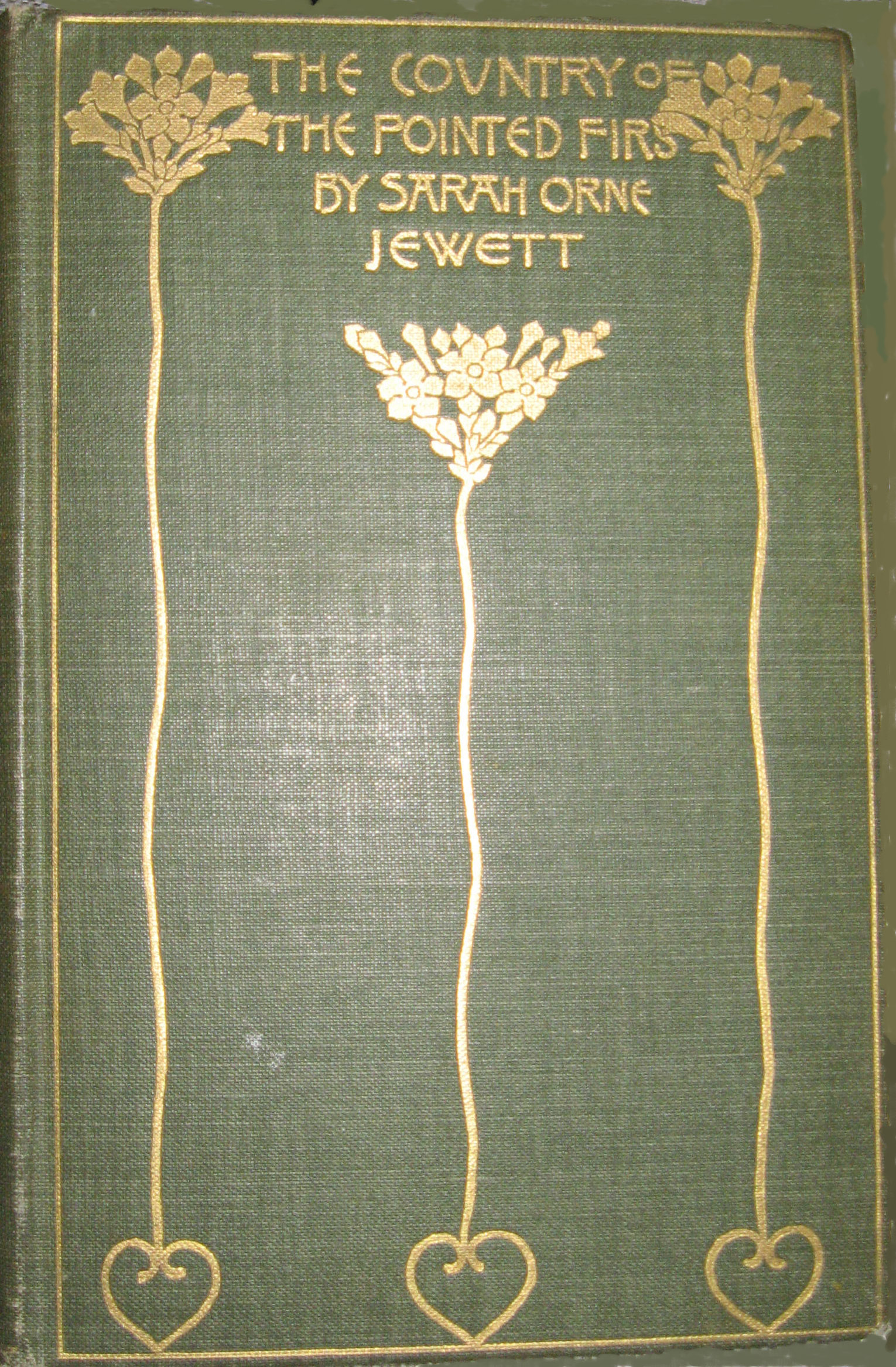 Photograph of the cover of The Country of the Pointed Firs by Sarah Orne Jewett. Published in 1896 by Houghton, Mifflin and Company. Image via UC Berkeley Library, accessed June 19, 2015.